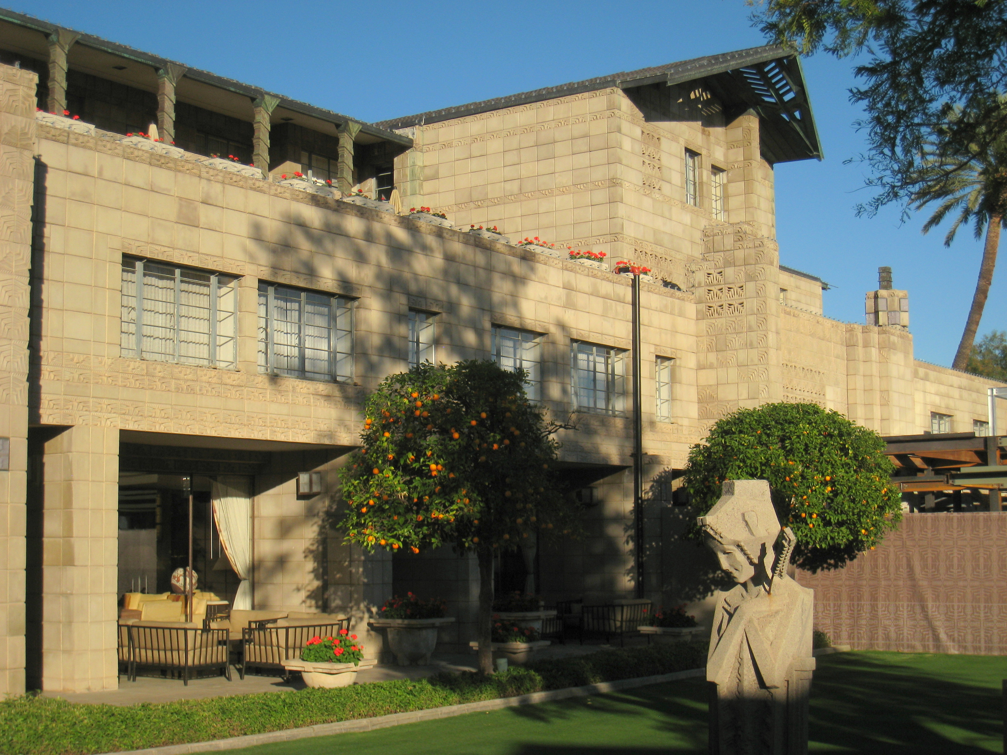 Front facade - Arizona Biltmore Hotel, Phoenix, Arizona, USA. Architect Albert Chase McArthur (1881–1951), with consulting work by Frank Lloyd Wright (1867–1959).